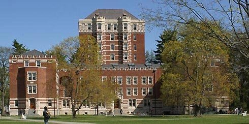 Jewett